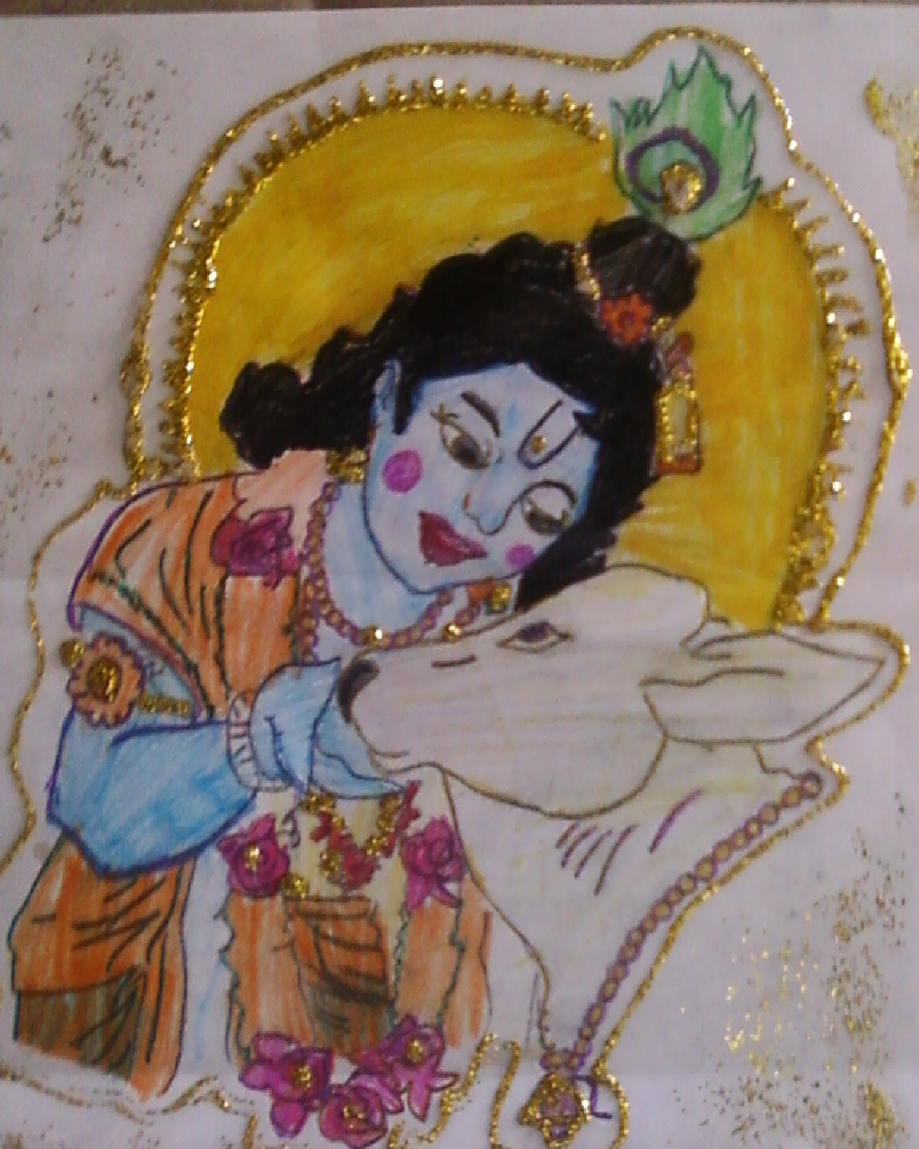 This Drawing is by me. M.Madhura 6th Std, VIDYANIKETHAN PUBLIC SCHOOL, BANGALORE-560056